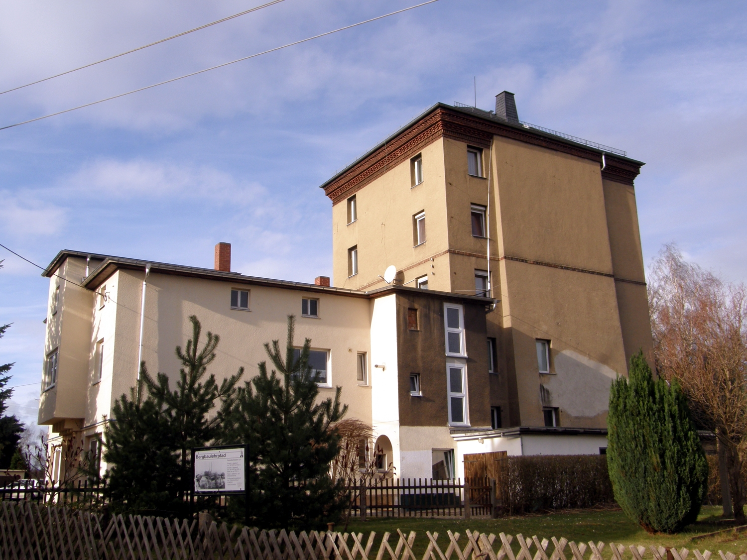 Former shaft house of Concordia II shaft in Oelsnitz/Erzgebirge, Saxony, Germany. After closure of the mine in 1931 the building was reconstructed as a appartment house.